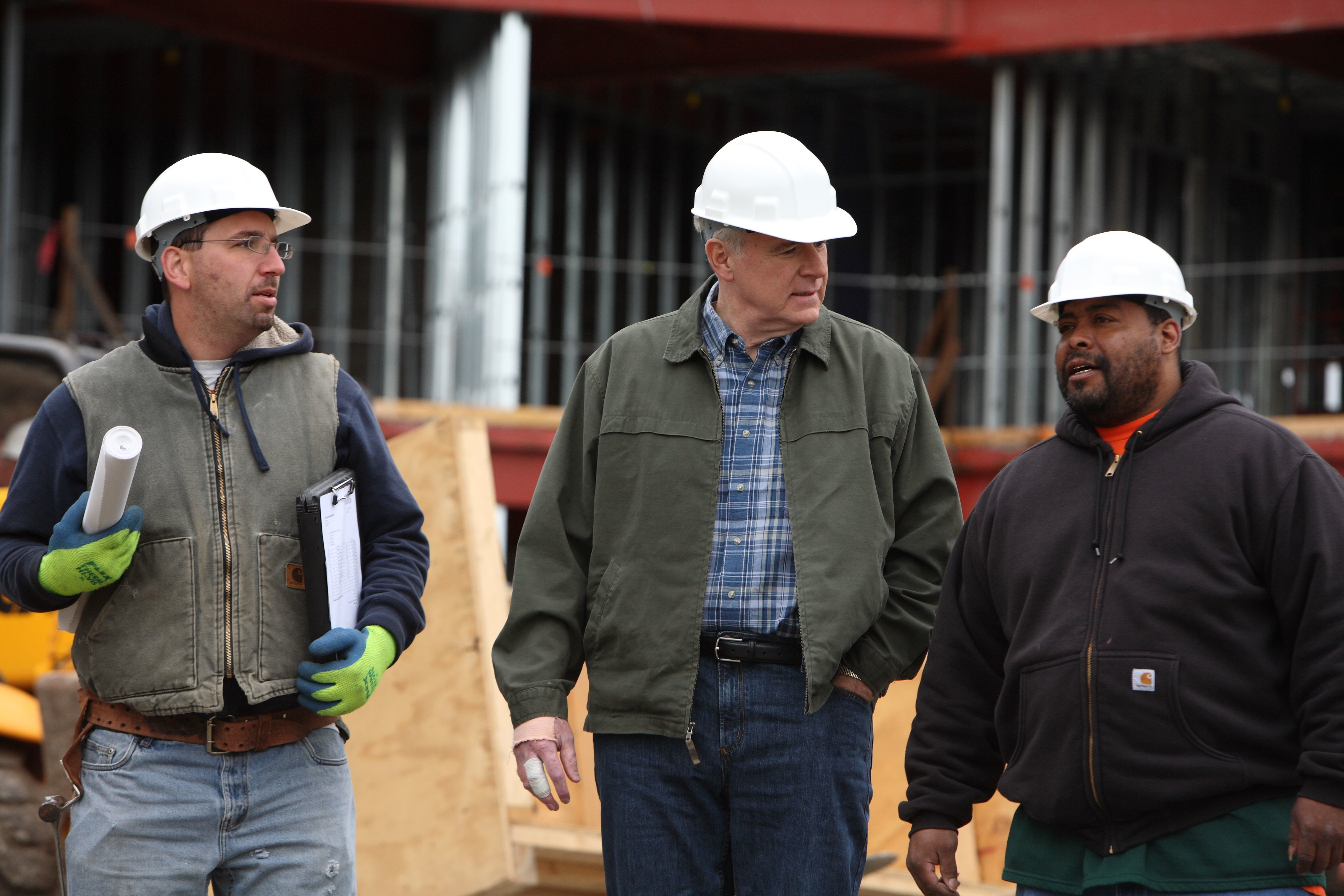 Tom Barrett talking with construction workers